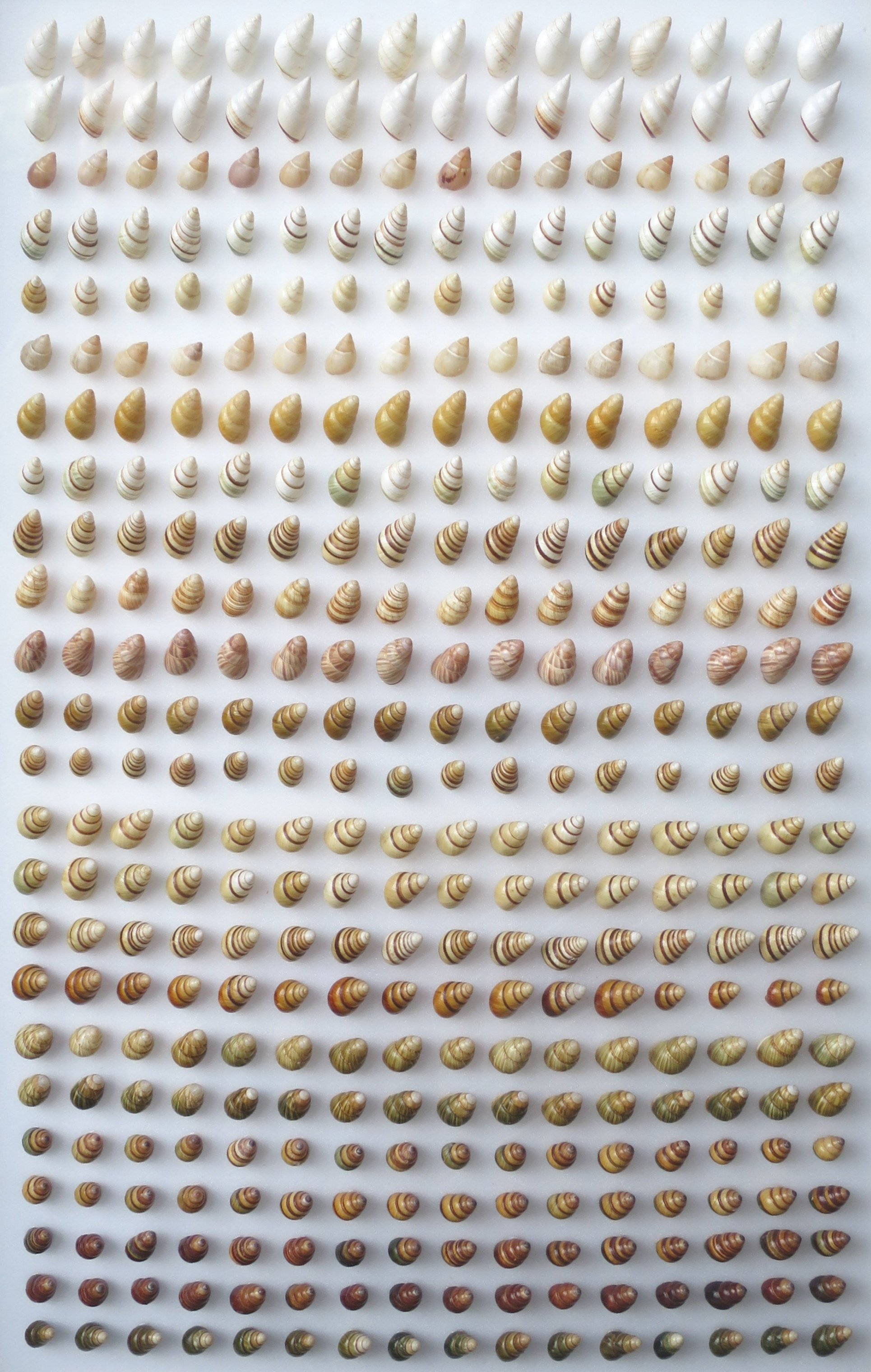 Different species of Achatinella, the Bernice Pauahi Bishop Museum